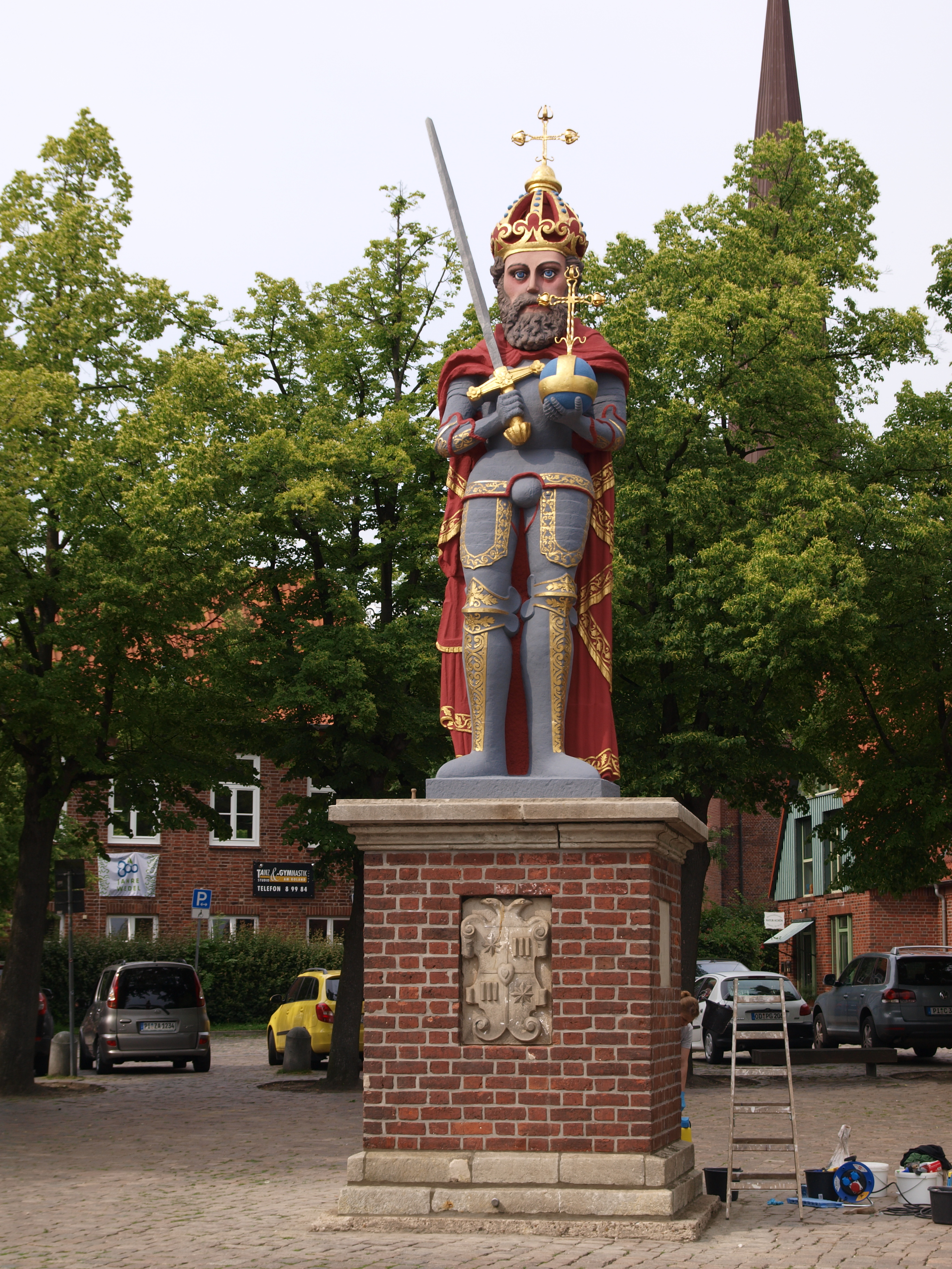 Statue of Roland of Wedel (Holstein), Kreis Pinneberg, Germany after finished restorration on 19 June 2012, in the earliest known colour design from 1907/1986. Cultural heritage monument.